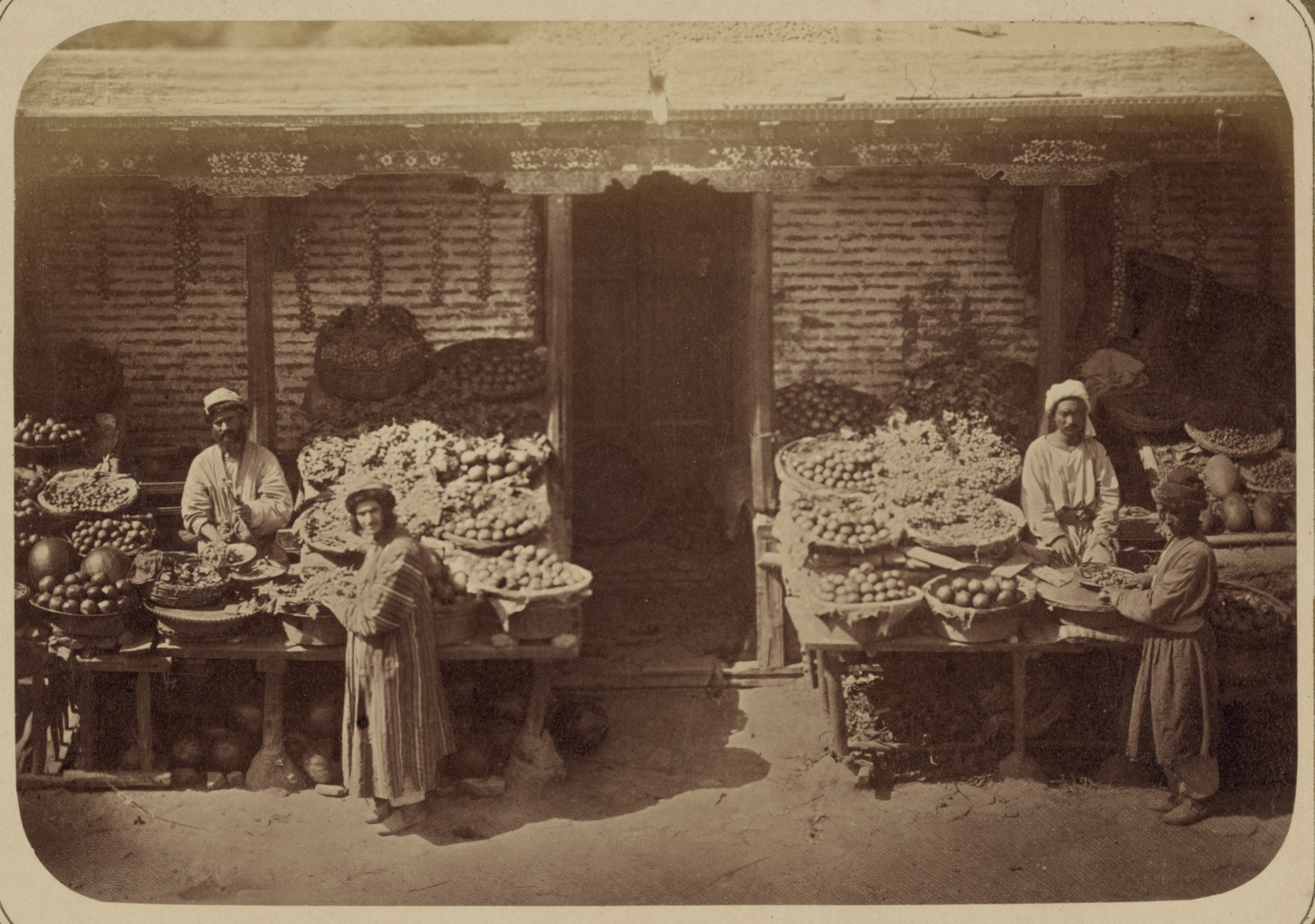 This photograph is from the ethnographical part of Turkestan Album, a comprehensive visual survey of Central Asia undertaken after imperial Russia assumed control of the region in the 1860s. Commissioned by General Konstantin Petrovich von Kaufman (1818–82), the first governor-general of Russian Turkestan, the album is in four parts spanning six volumes: “Archaeological Part” (two volumes); “Ethnographic Part” (two volumes); “Trades Part” (one volume); and “Historical Part” (one volume). The principal compiler was Russian Orientalist Aleksandr L. Kun, who was assisted by Nikolai V. Bogaevskii. The album contains some 1,200 photographs, along with architectural plans, watercolor drawings, and maps. The “Ethnographic Part” includes 491 individual photographs on 163 plates. The photographs show individuals representing the different peoples of the region (Plates 1–33); daily life and rituals (Plates 34–91); and views of villages and cities, street vendors, and commercial activities (Plates 92–163). Bazaars; Ethnographic photographs; Food vendors; Fruit; Markets; Merchants; Peddlers; Photographic surveys; Portrait photographs; Portraits; Turkic peoples